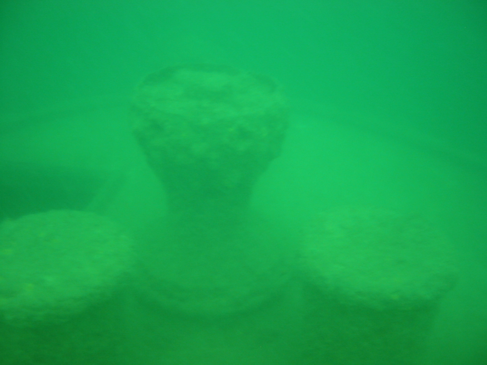 Three capstans on the stern end of the Thomas Wilson (shipwreck), a ship wrecked in the harbor of Duluth, Minnesota.